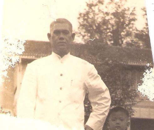 Photo taken at the hill near Statdhuys